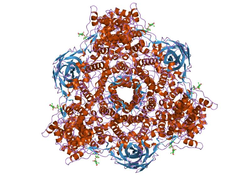 Cartoon representation of the molecular structure of protein registered with 1hcy code.